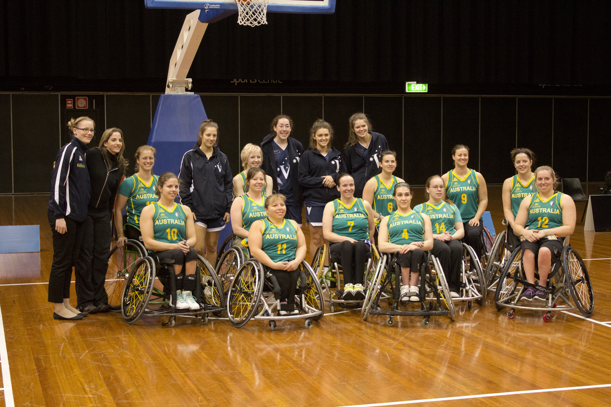 Australian Gliders' group photo. Front row, left to right: Kyle Gauci and Sarah Vinci. Second row, left to right: Clare Nott, Tina McKenzie, Amanda Carter, Katie Hill, Shelley Chaplin. Back row, left to right: Sarah Stewart, Amber Merritt, Bridie Kean, Leanne Del Toso, Cobi Crispin